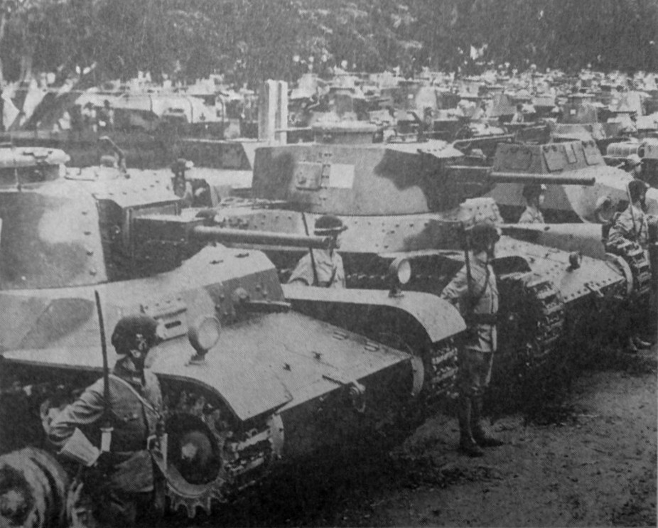 Imperial Japanese Army Type 1 medium tank Chi-He and Type 97 medium tank shinhoto Chi-Ha.